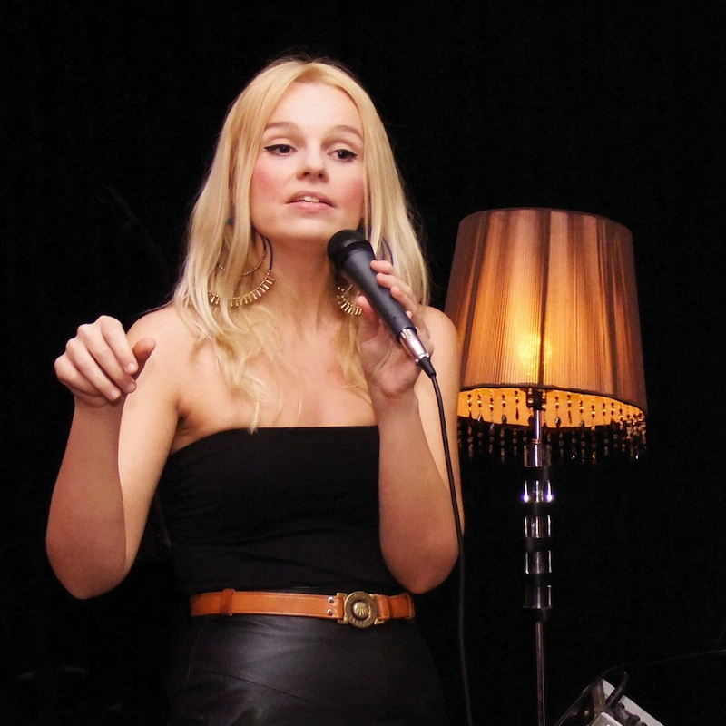 Karolina Glazer during a concert at Jazz Club Muzeum in 2013